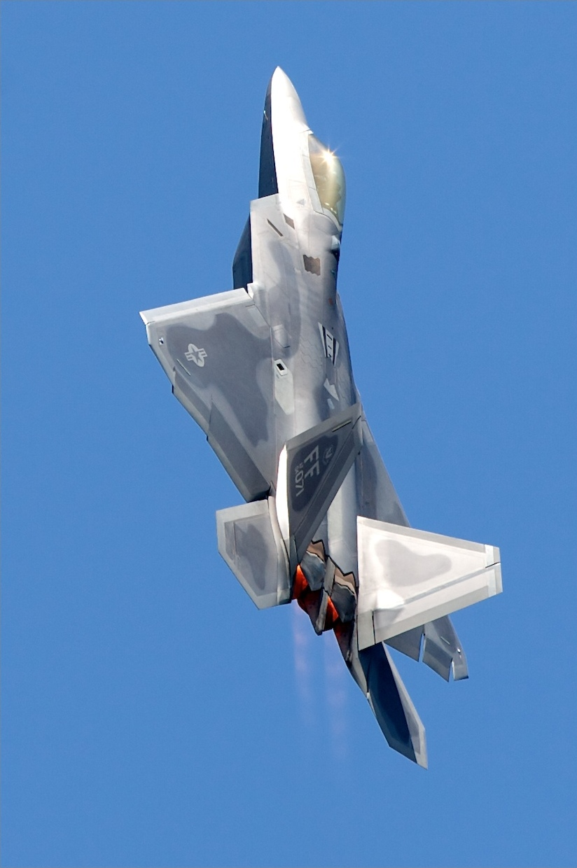 A Lockheed Martin F-22A fighter shows off its tremendous climbing capability at the 2008 Joint Services Open House (JSOH) airshow at Andrews AFB. Photo taken with my Canon 30D and through a rented Canon EF 300mm f/2.8L IS USM lens.